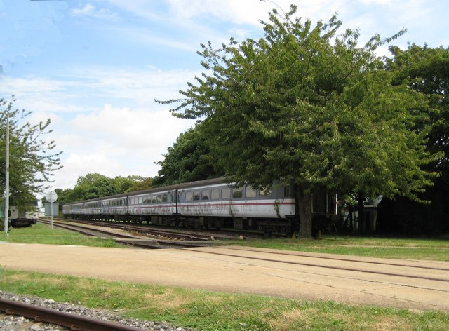 Shoeburyness: Pig's Bay MOD railway scrapyard The extensive railway system of the MOD at Shoeburyness has long been used to store withdrawn railway rolling stock prior to scrapping. On view here are six coaches of a former Gatwick Express train while just visible on the left is the end coach of a former London Underground Northern Line train. From information gleaned elsewhere on the internet I understand that this rolling stock is periodically despatched to Newport in South Wales for the actual scrapping process. I think these sidings are the same ones that Glyn photographed in his 66789 which would mean that there has been some train movement since October 2005!